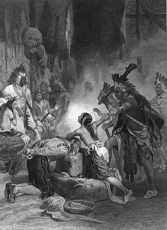 Pocahontas Saving the Life of Capt. John Smith, engraving 1861 by Alonzo Chappel. Published in 1866 in J.A. Spencer's History of The United States. Information from The Pilgrims and Pocahontas: Rival Myths of American Origin by Ann Uhry Abrams, Westview Press, 1999, which uses a version on its cover.